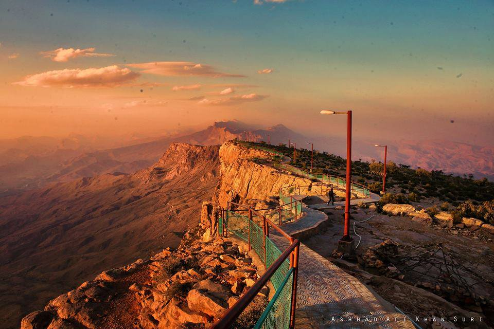 Gorakh Hill Station (Dadu) This is a photo of a monument in Pakistan identified as the SD-8